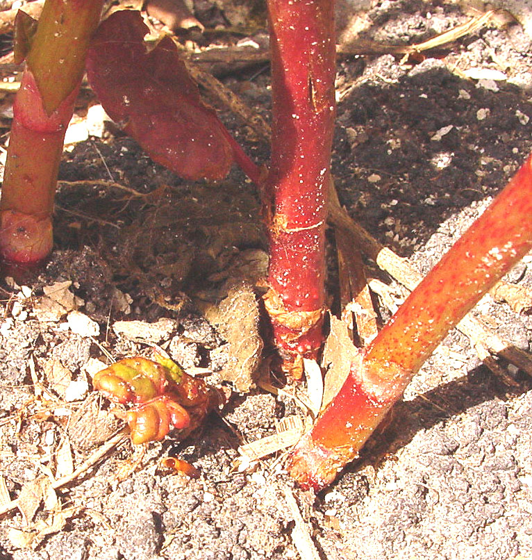 Fallopia japonica locally growing trhow tarmac